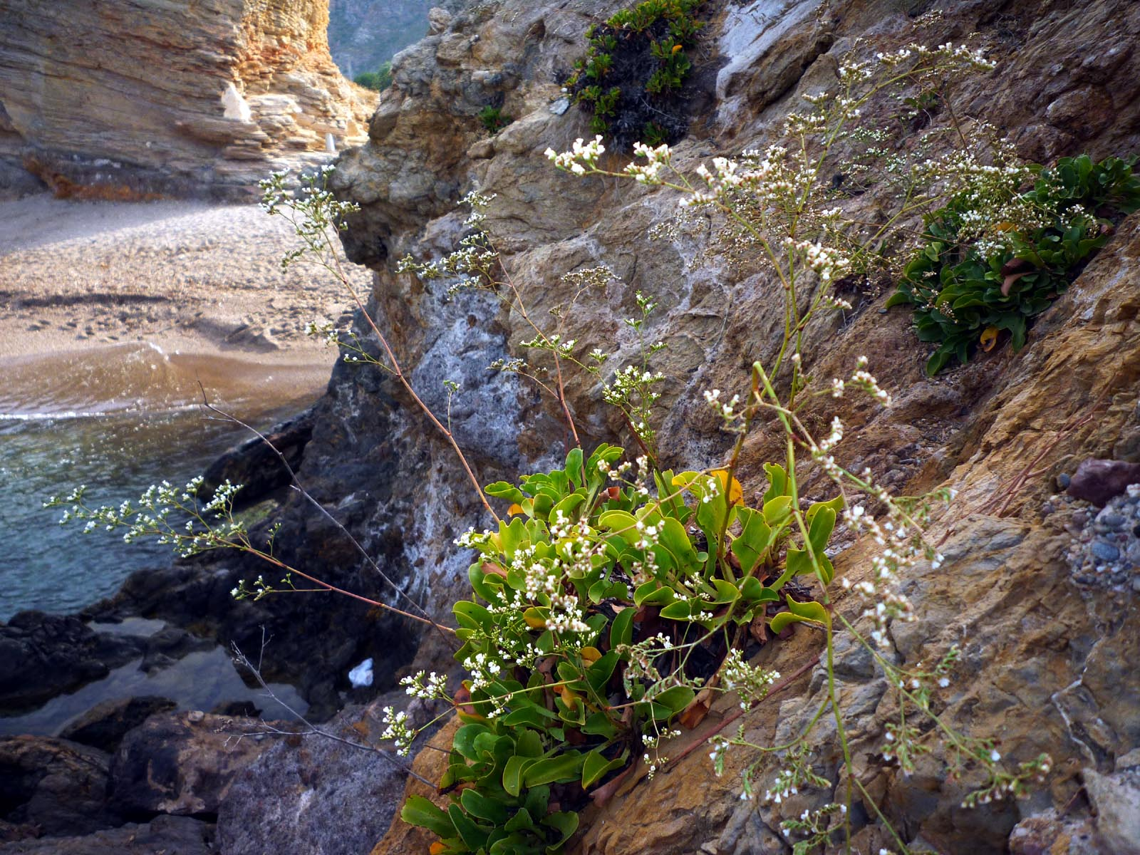 Limonium cossonianum in El Portús, Cartagena (Spain).